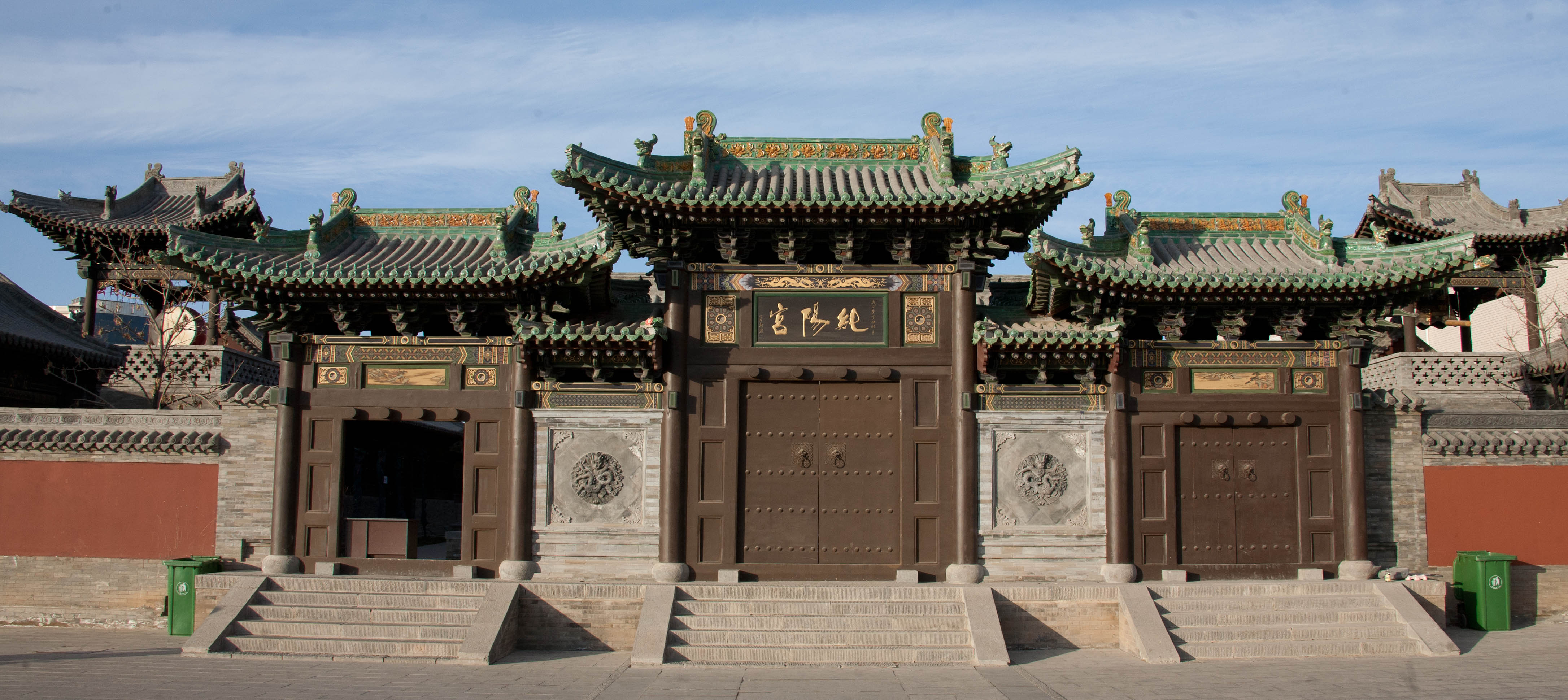 the Chunyang Gong(Temple of Lv Dongbin)in Datong, Shanxi, China